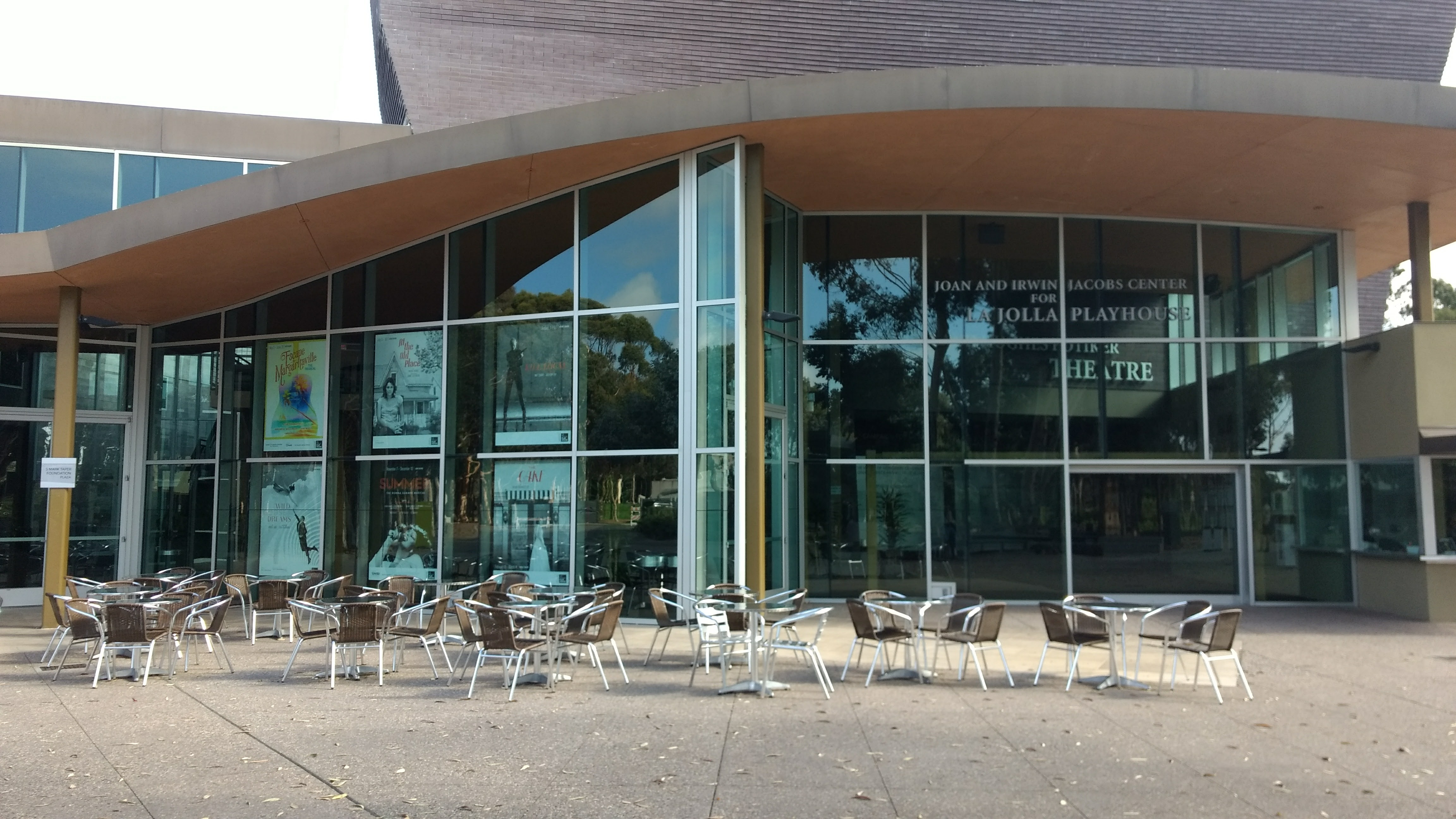 La Jolla Playhouse theater